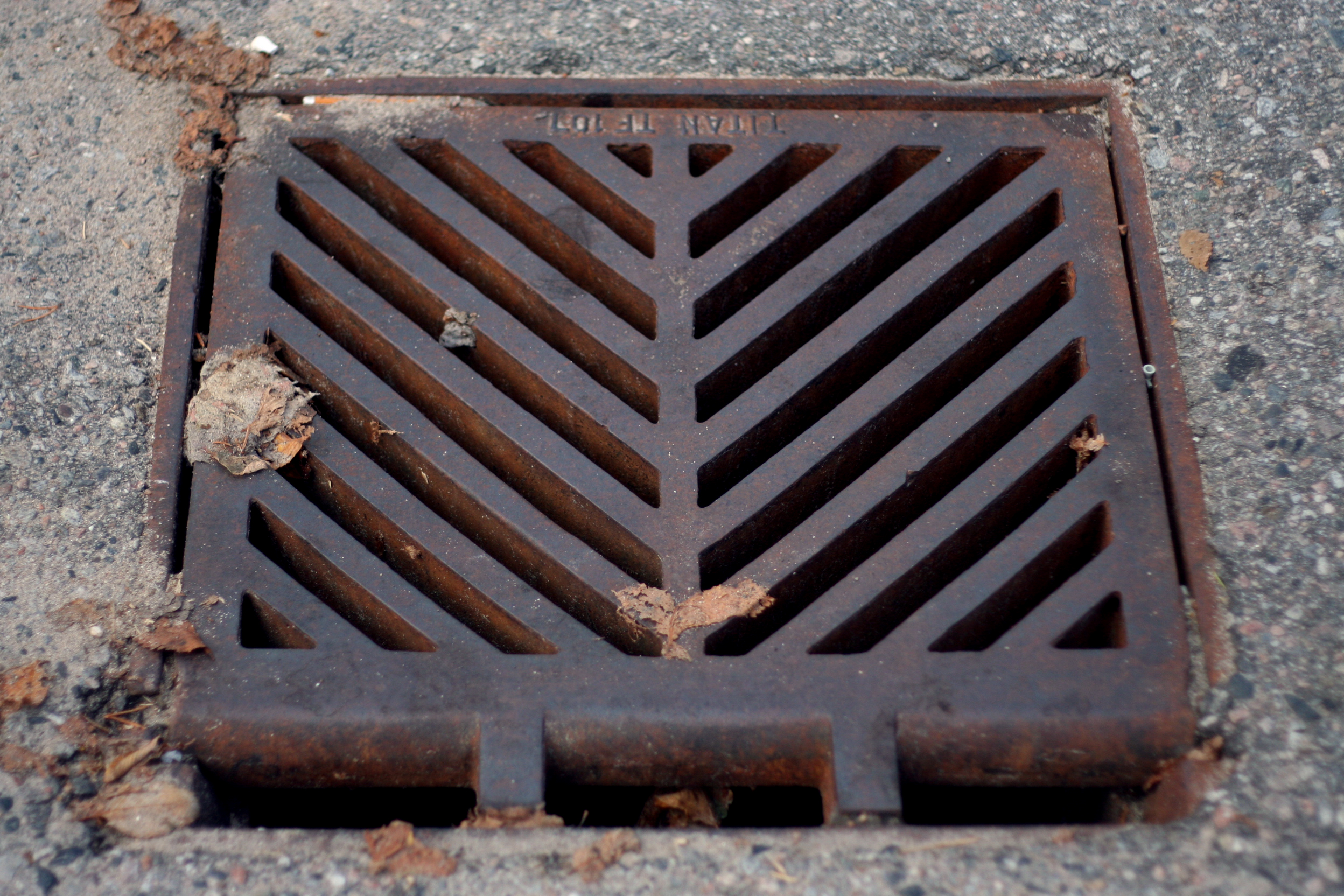 Street side storm drain, Dryden Ontario.